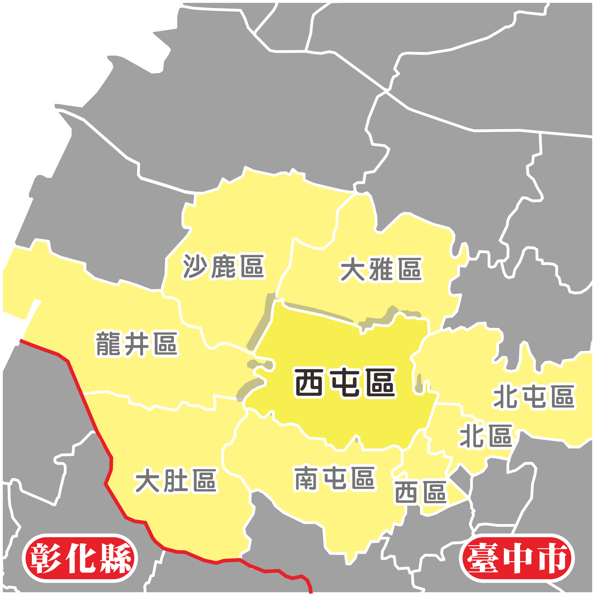 Xitun District